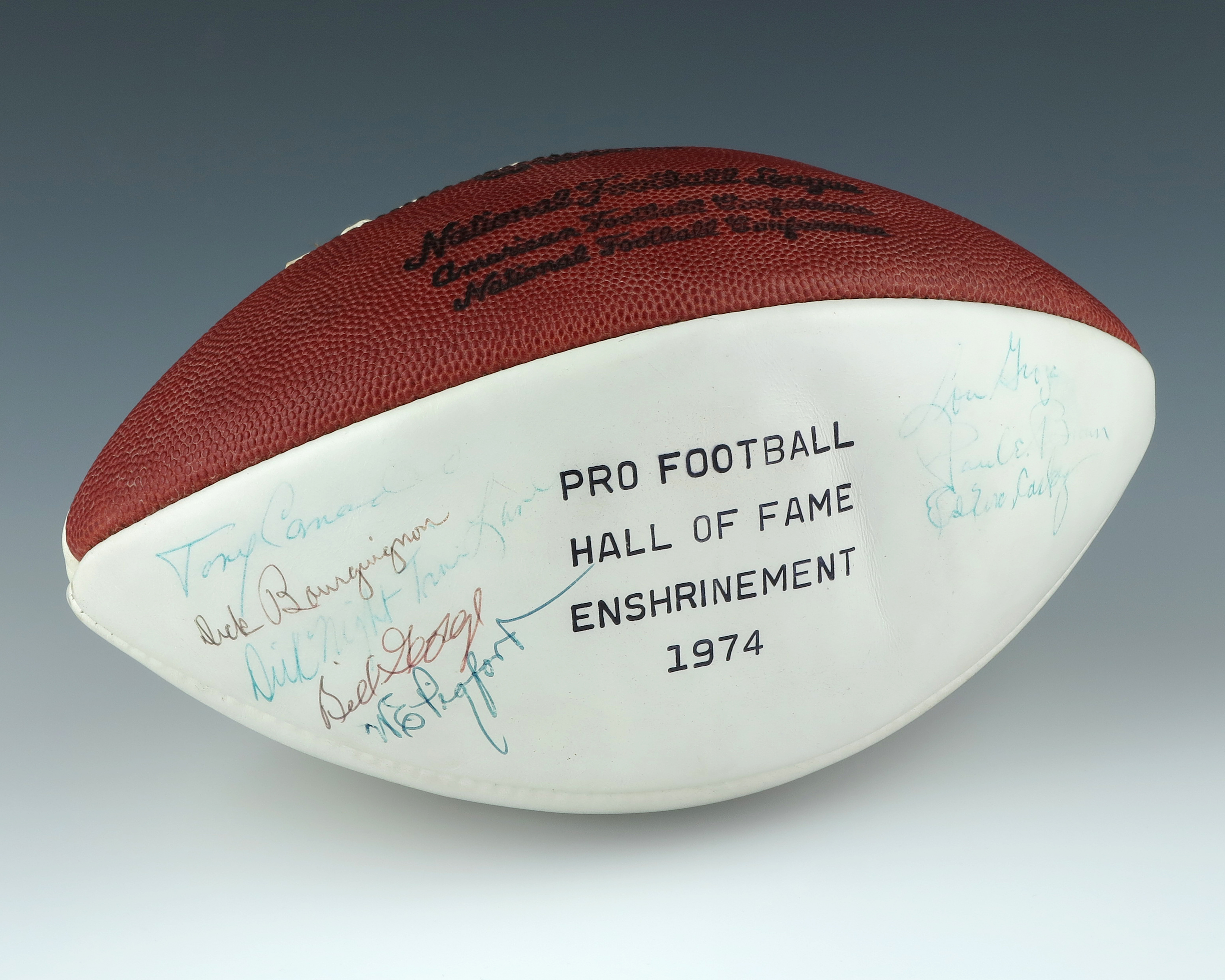 This official NFL football features the autographs of the players from the 1974 Pro Football Hall of Fame.